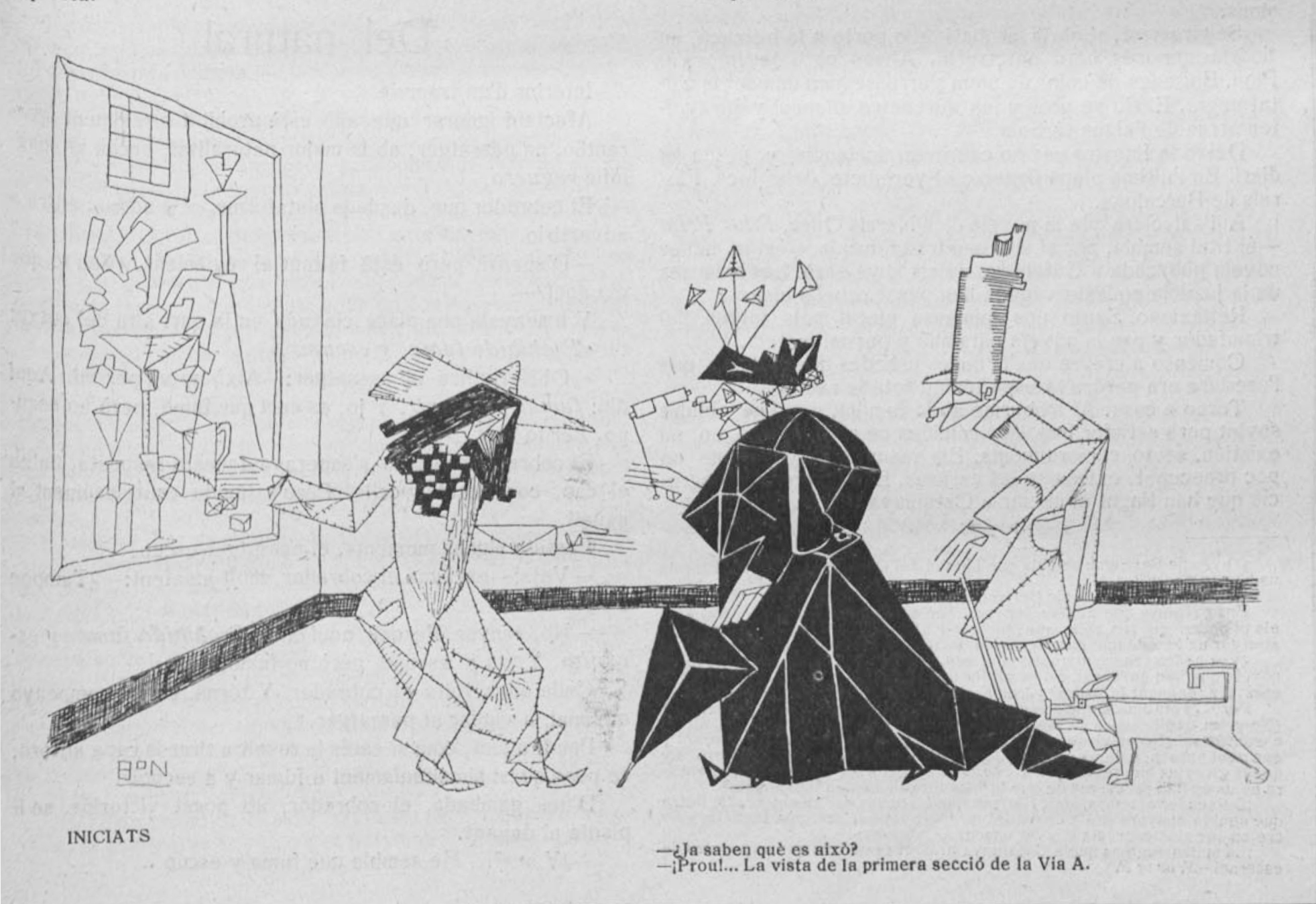 Cubist caricature published in Esquella de La Torratxa, no. 1740, 3 May 1912